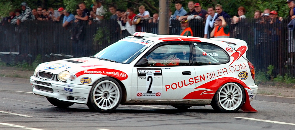 This image shows a Toyota Corolla WRC. This photo has been taken during the Saxony rally racing 2005 in Zwickau (Germany).